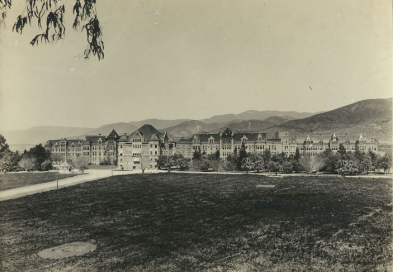 Patton State Hospital, c. 1899